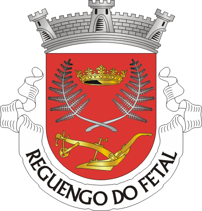 Crest of Reguengo do Fetal parish, Batalha municipality (Portugal)